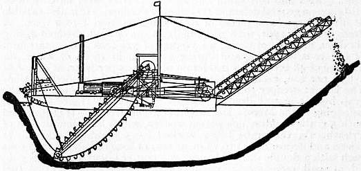 Diagram showing Action of gold dredger built by Lobnitz & Co of Renfrew, Scotland